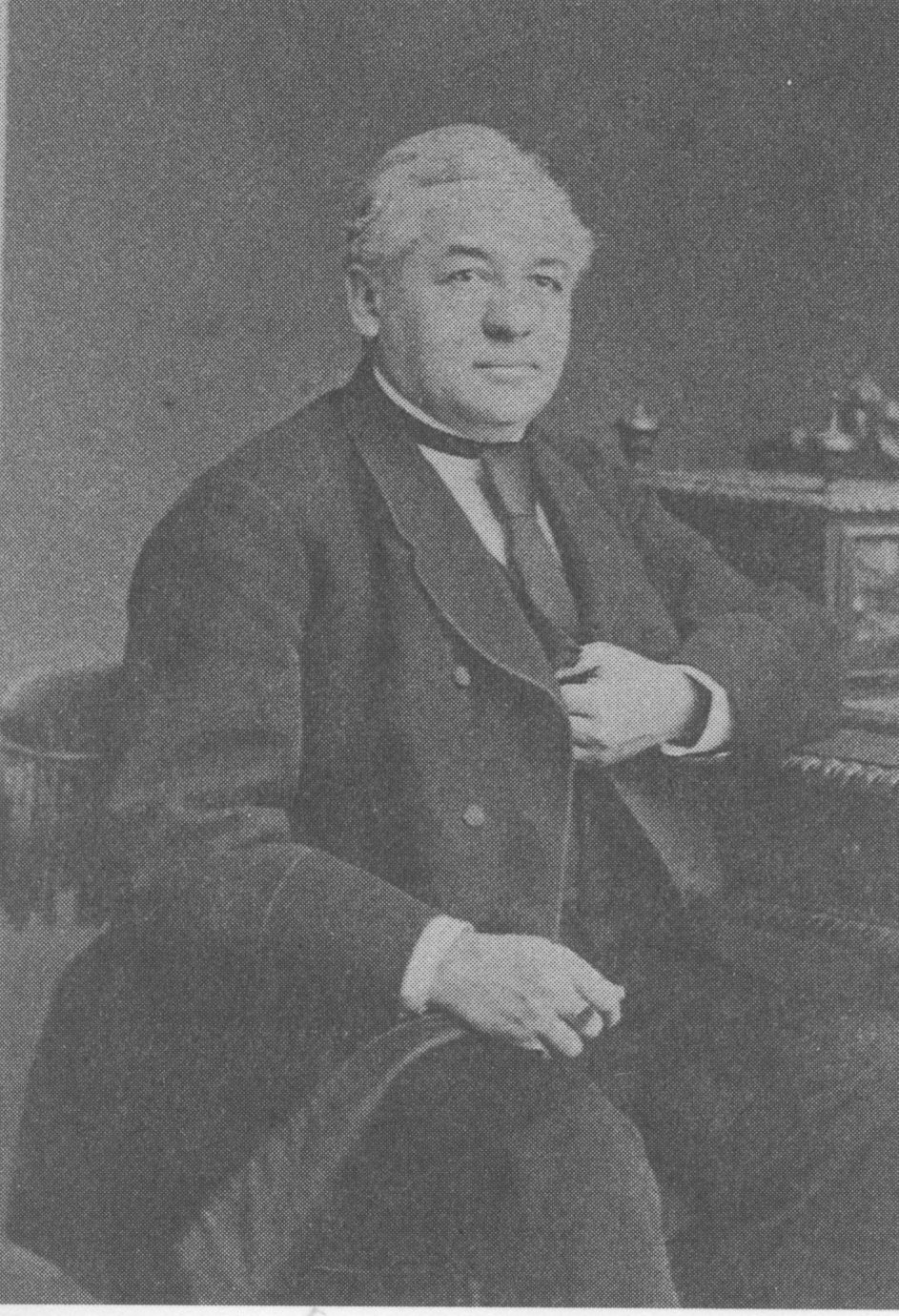 portrait of Carl Eduard Mannsfeld (1822-1874), German politician and lawyer